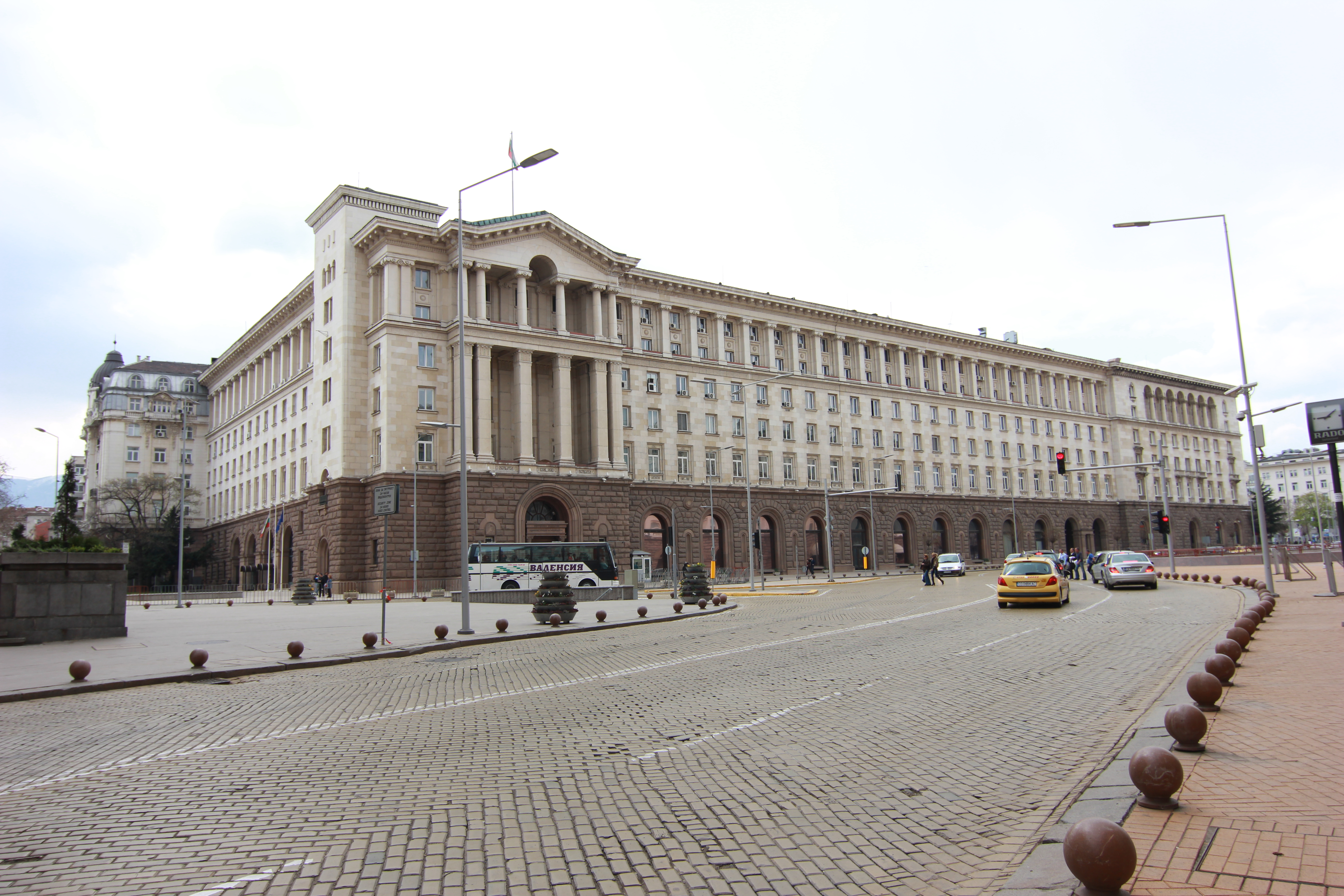 Presidency hall of Bulgaria